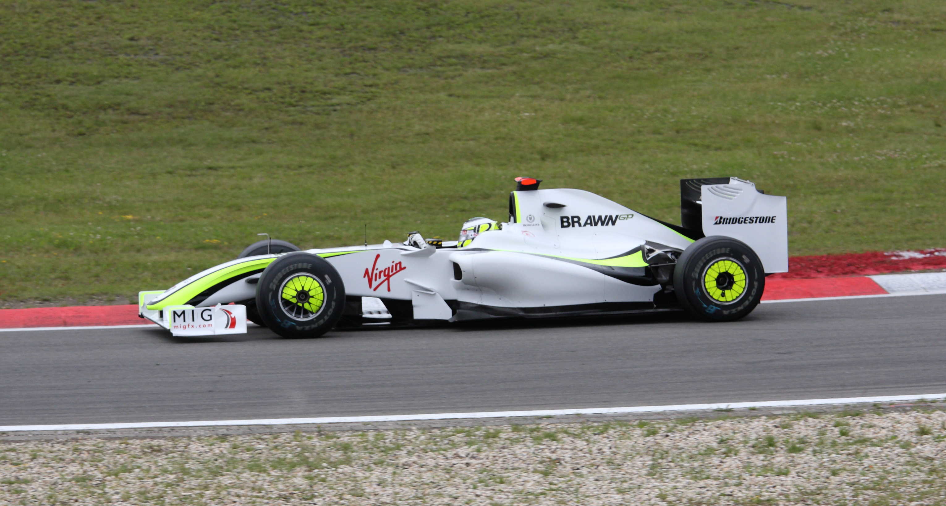 Jenson Button driving for Brawn GP at the 2009 German Grand Prix.